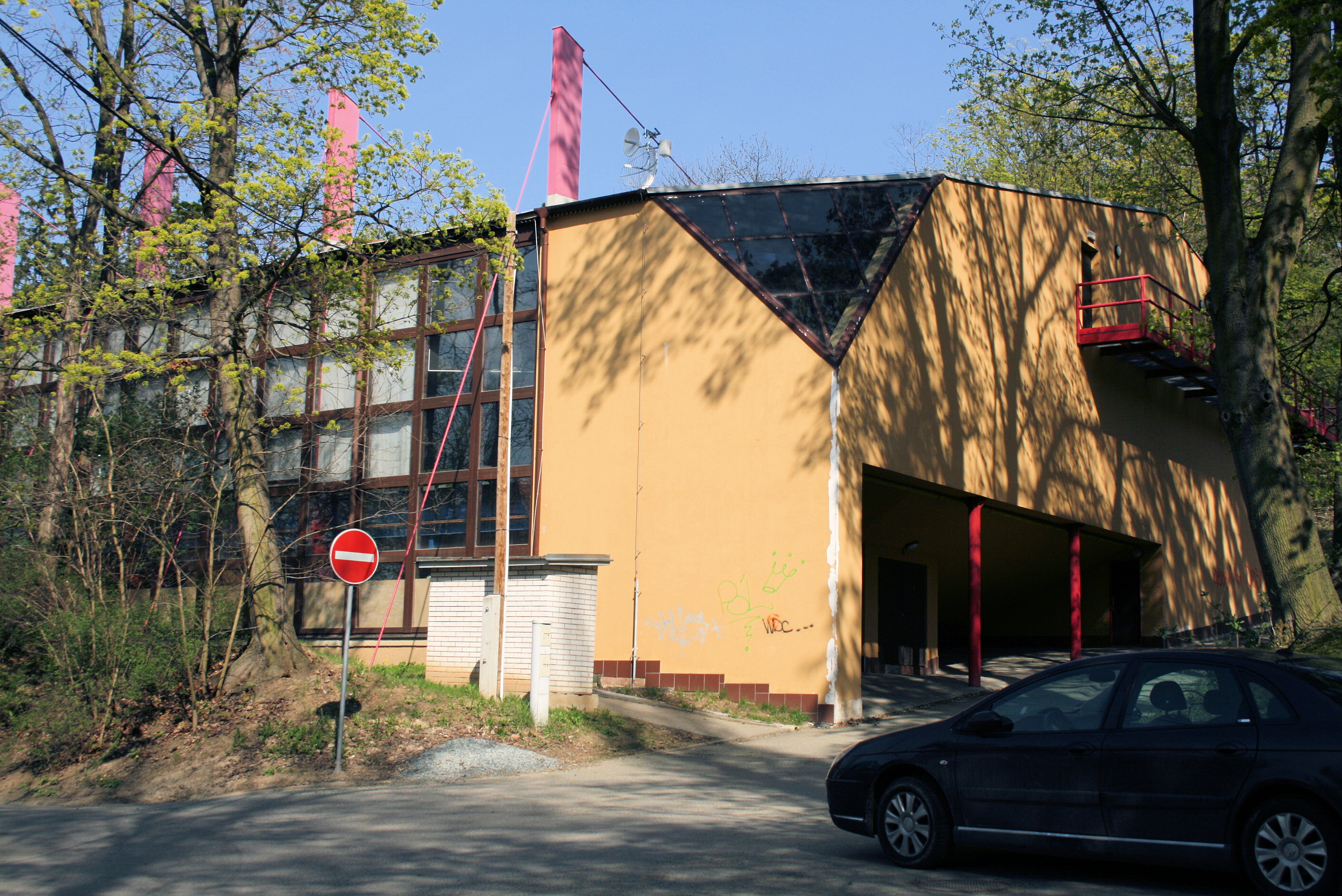 Multipurpose sport hall Rosnička, Brno, Czech Republic.